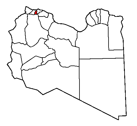 map of Libya with Al Jfara district highlighted